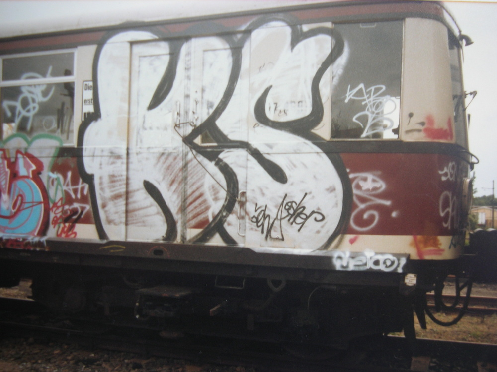 top2bottom, berlin, germany